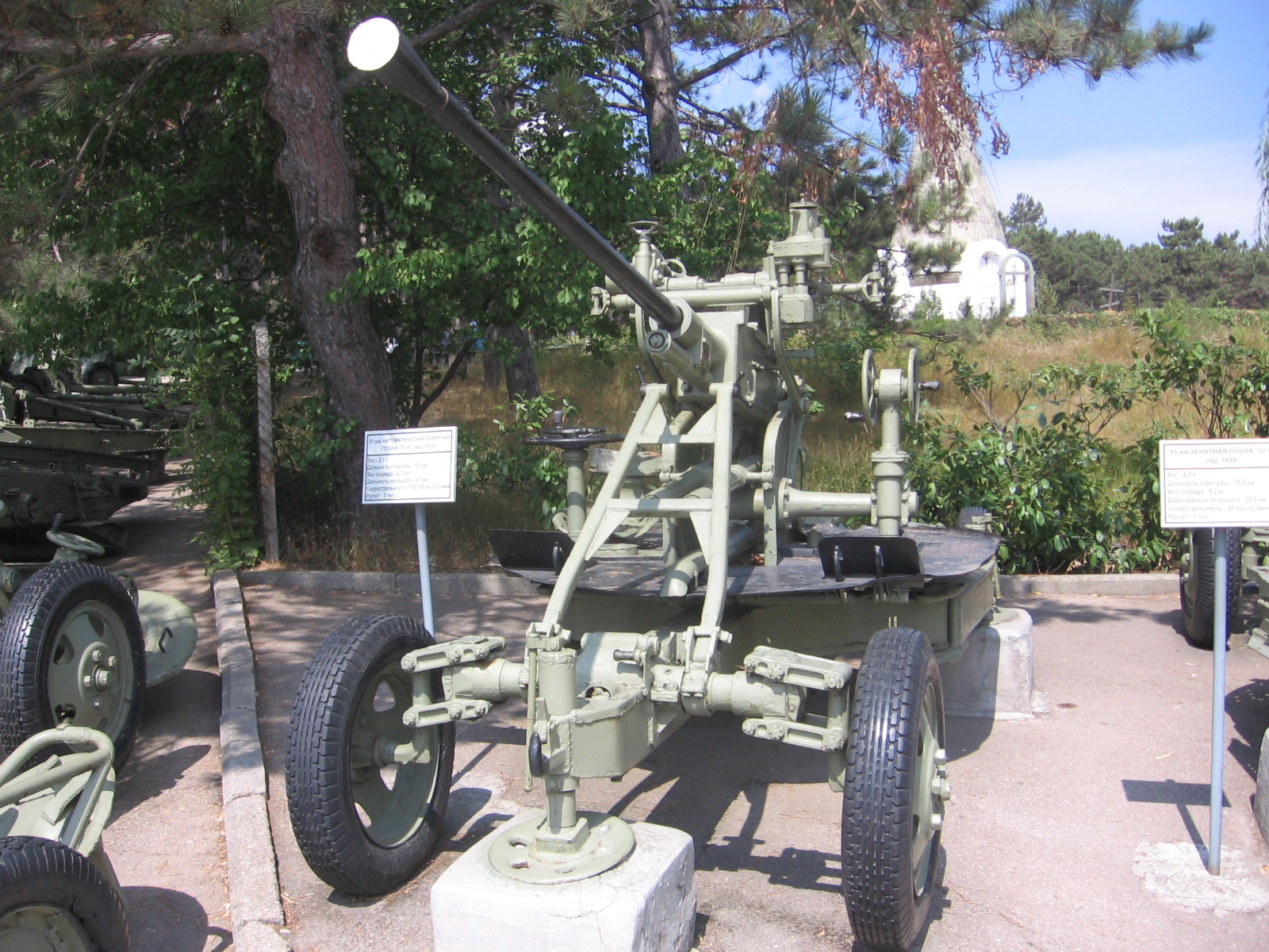 Soviet 37 mm automatic air defense gun M1939 (61-K), manufactured in 1943, is displayed at the Museum of Heroic Defense and Liberation of Sevastopol on Sapun Mountain in Sevastopol.